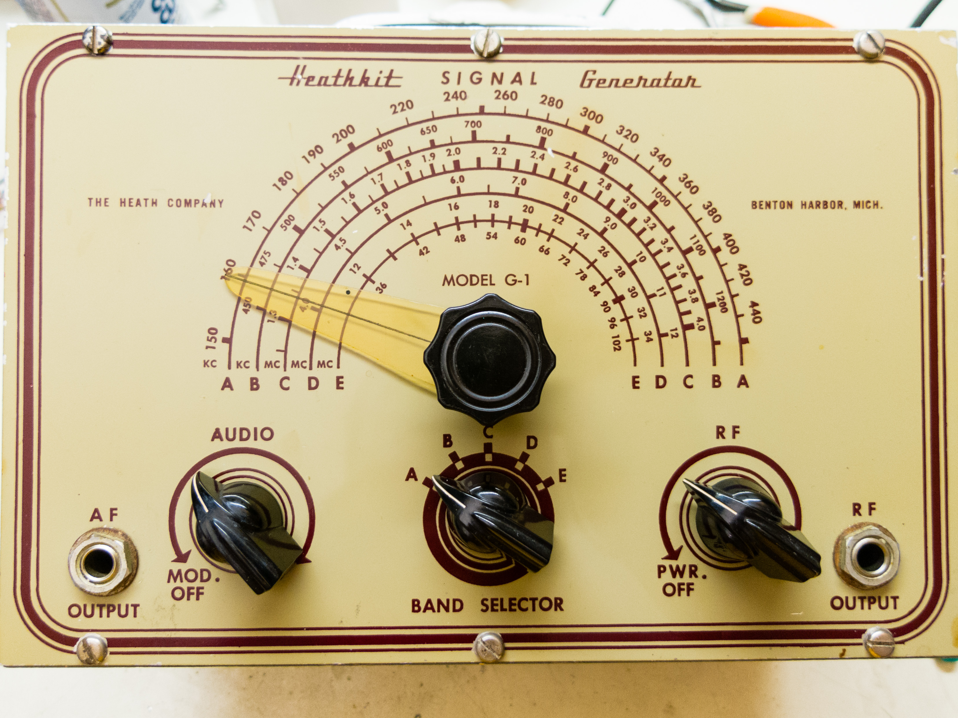 Heathkit's first kit, from 1948.